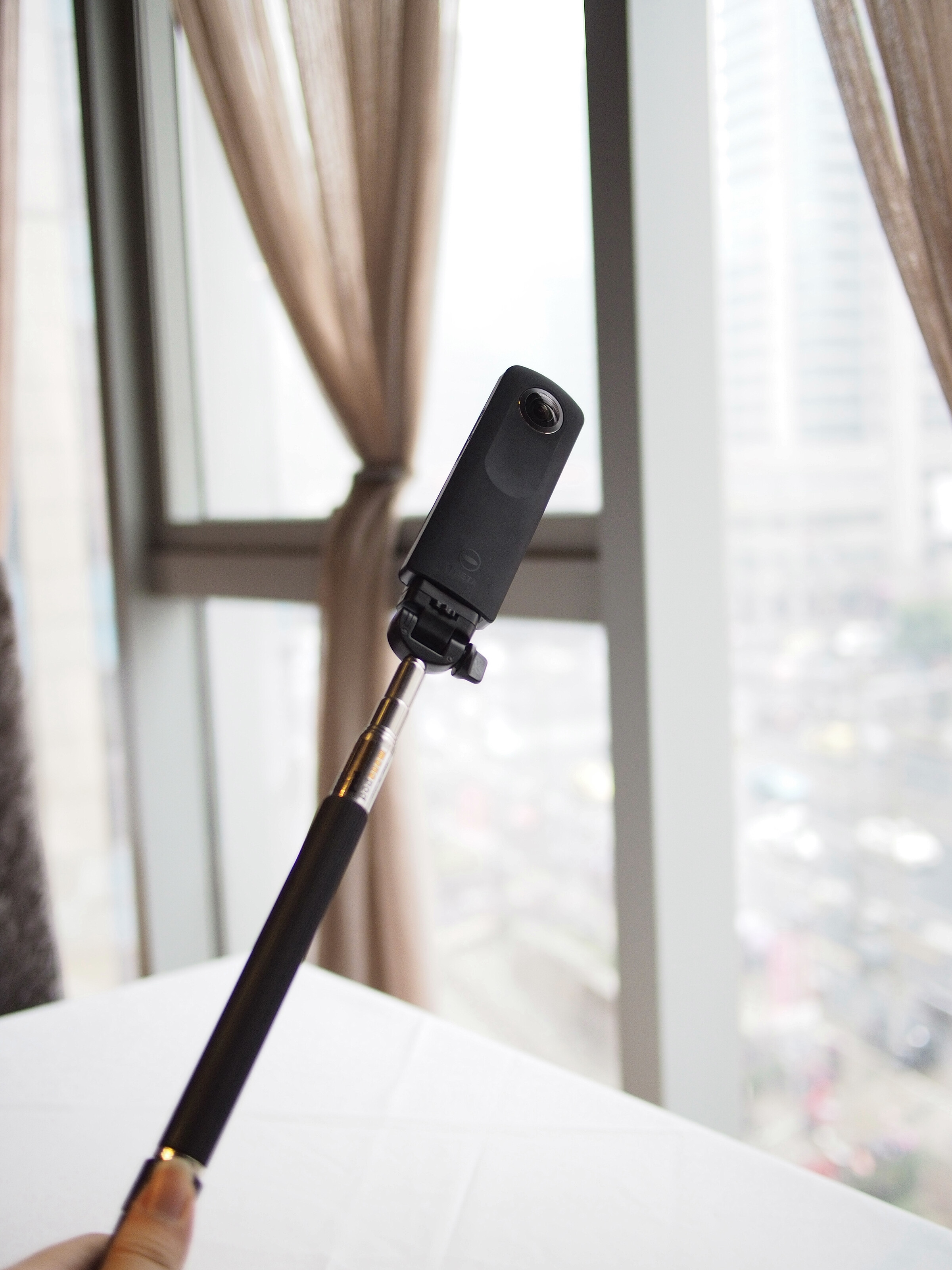 RICOH THETA S installed with the self stick. Such a mix can be achieved flawless panorama shot.